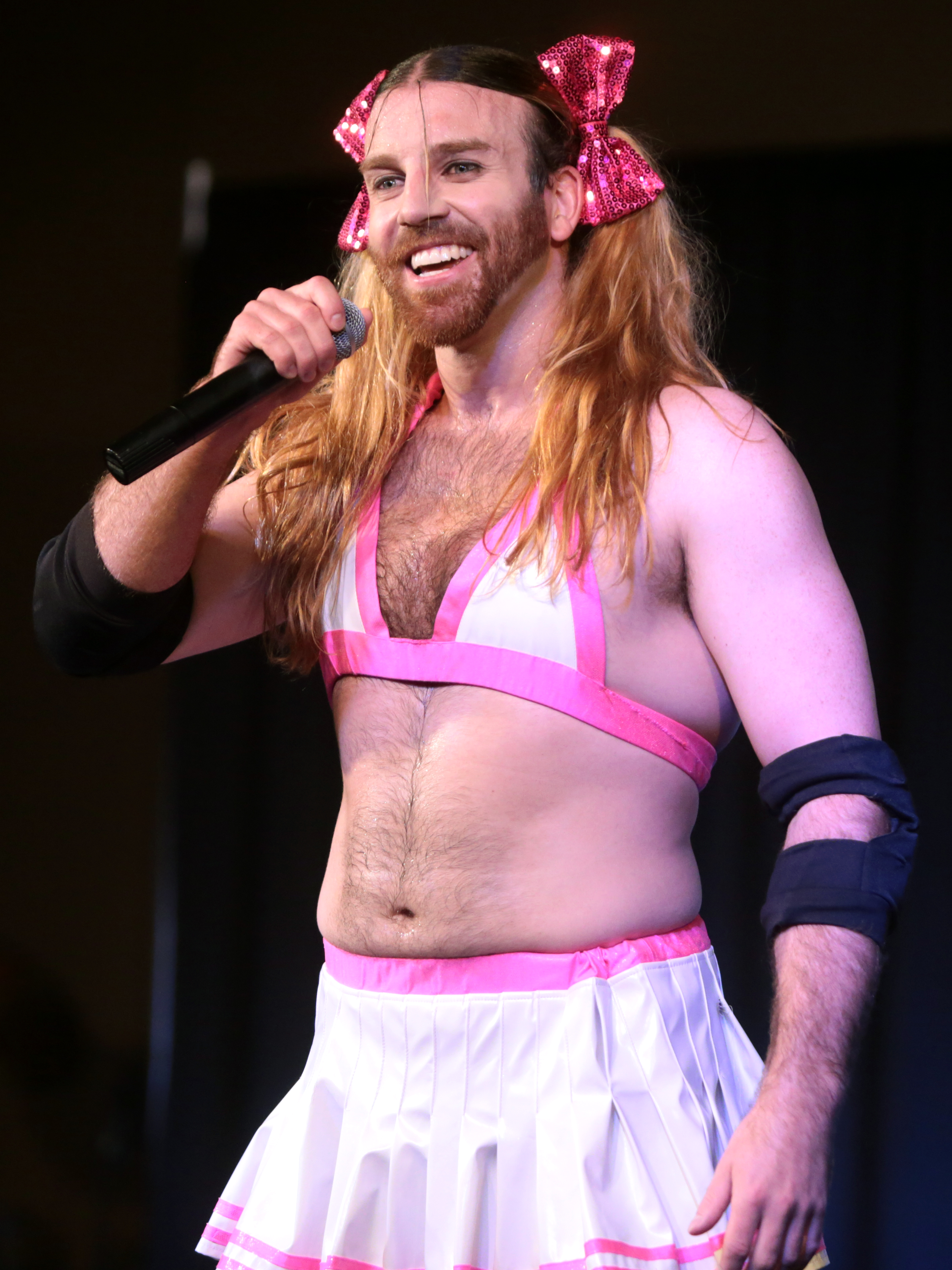 Ladybeard speaking at Saboten Con in Phoenix, Arizona.